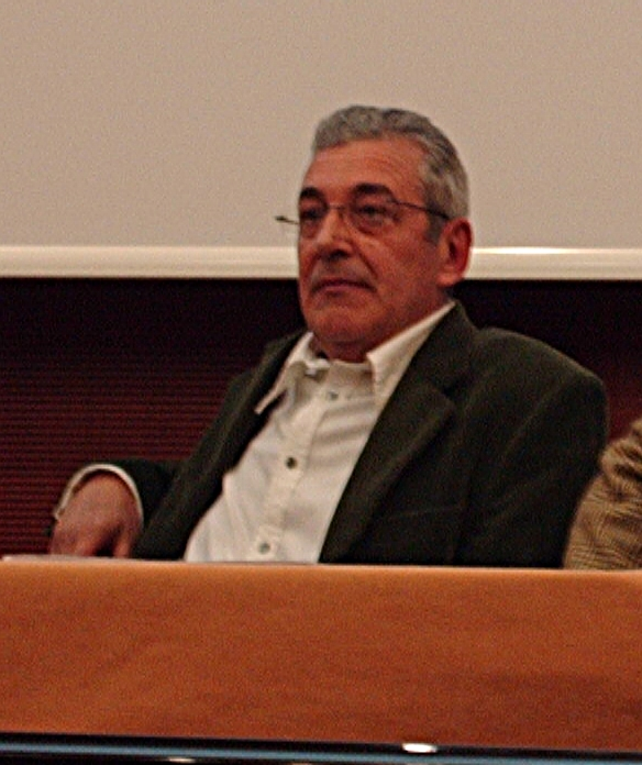 Actor Marzio Honorato attending a meeting at a book fair (Galassia Gutenberg, Naples)